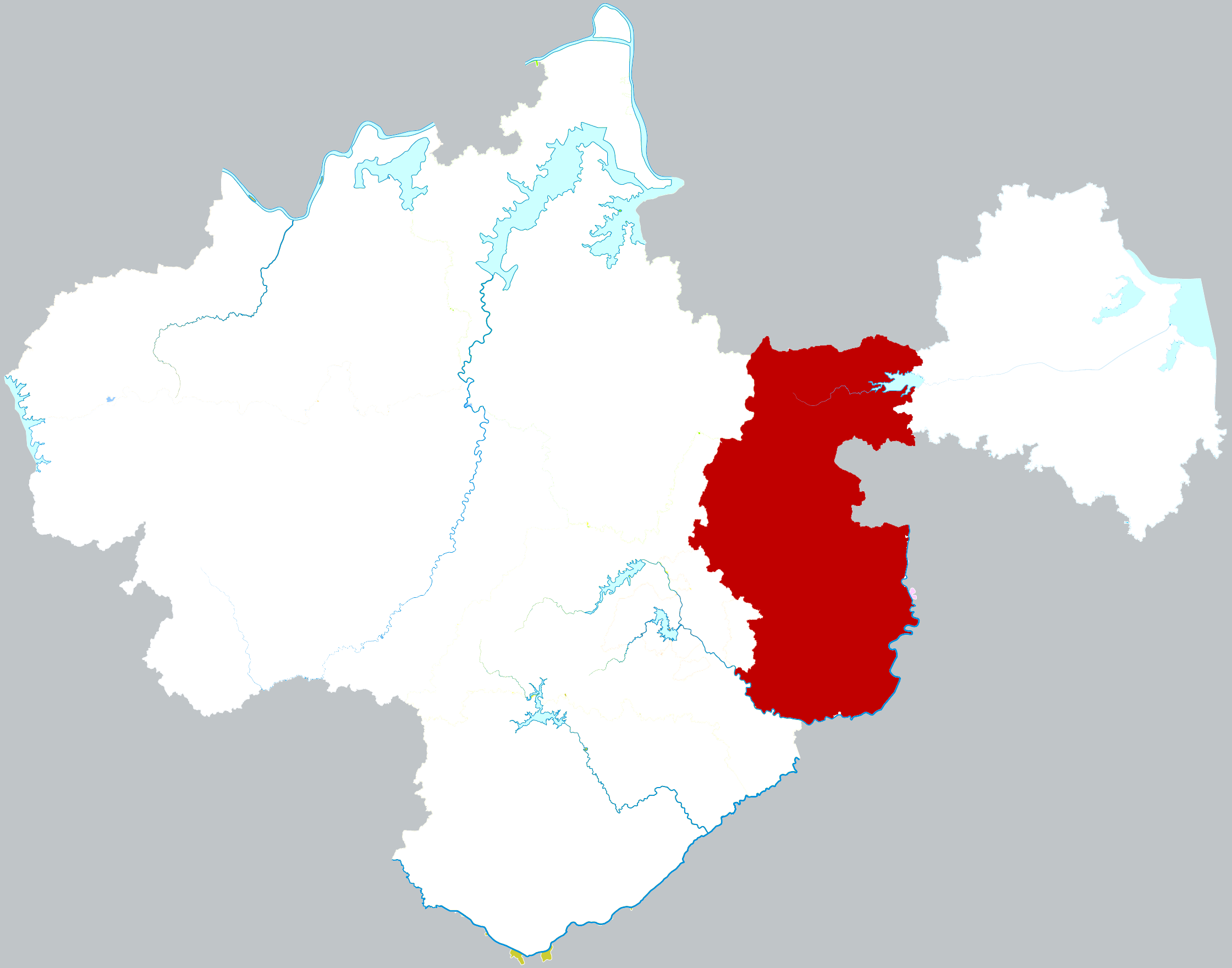 Location of Laian county in Chuzhou city, China